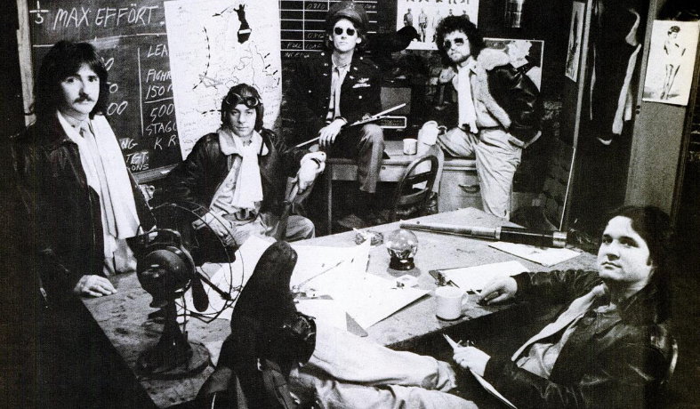 Trade ad for Blue Öyster Cult's "Secret Treaties".